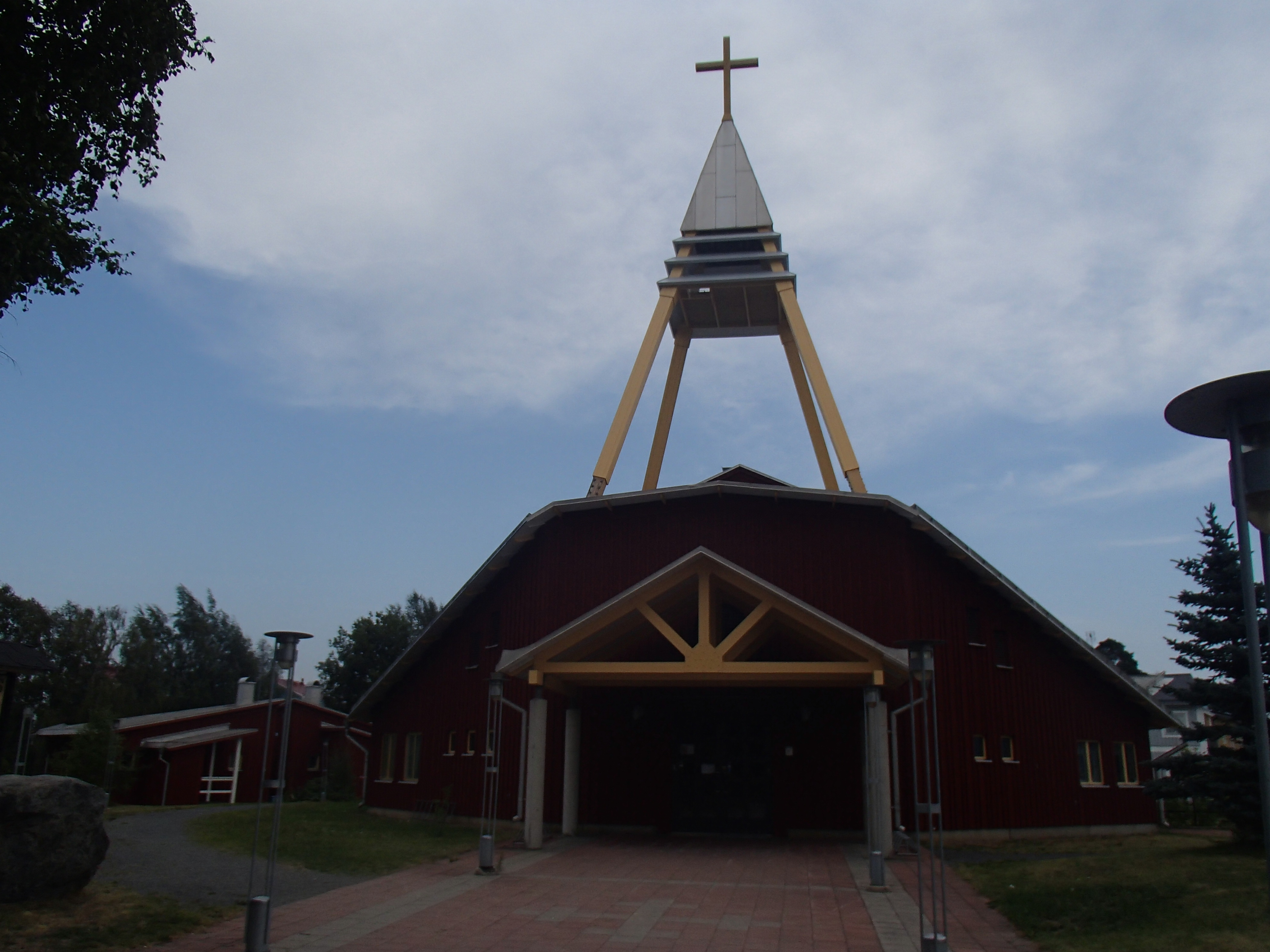 catholic church Luleå